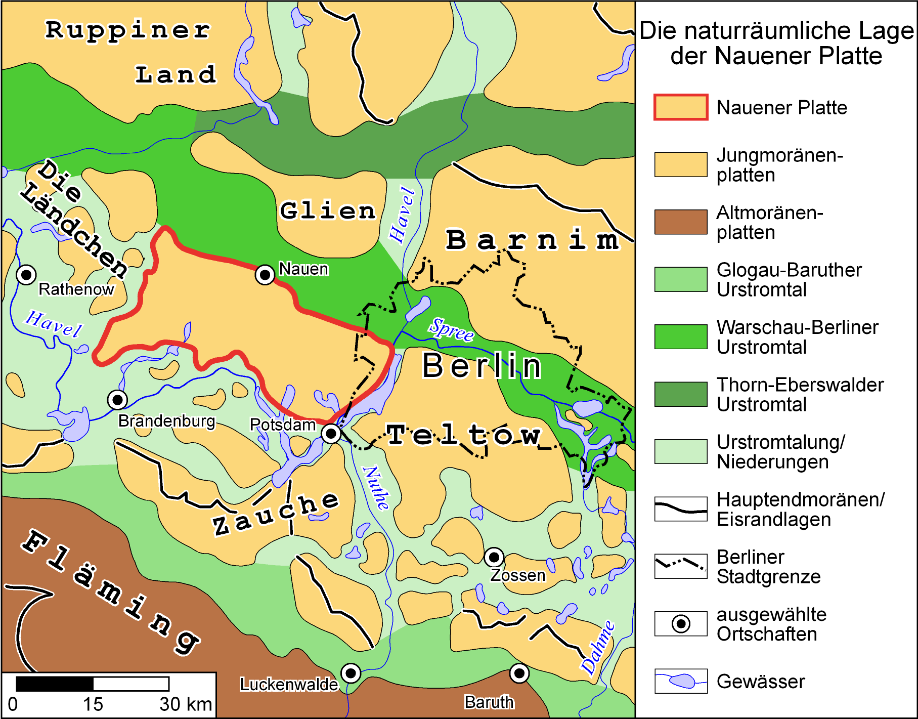 The location of the Nauen Plateau within the natural regions in Berlin and Brandenburg, Germany